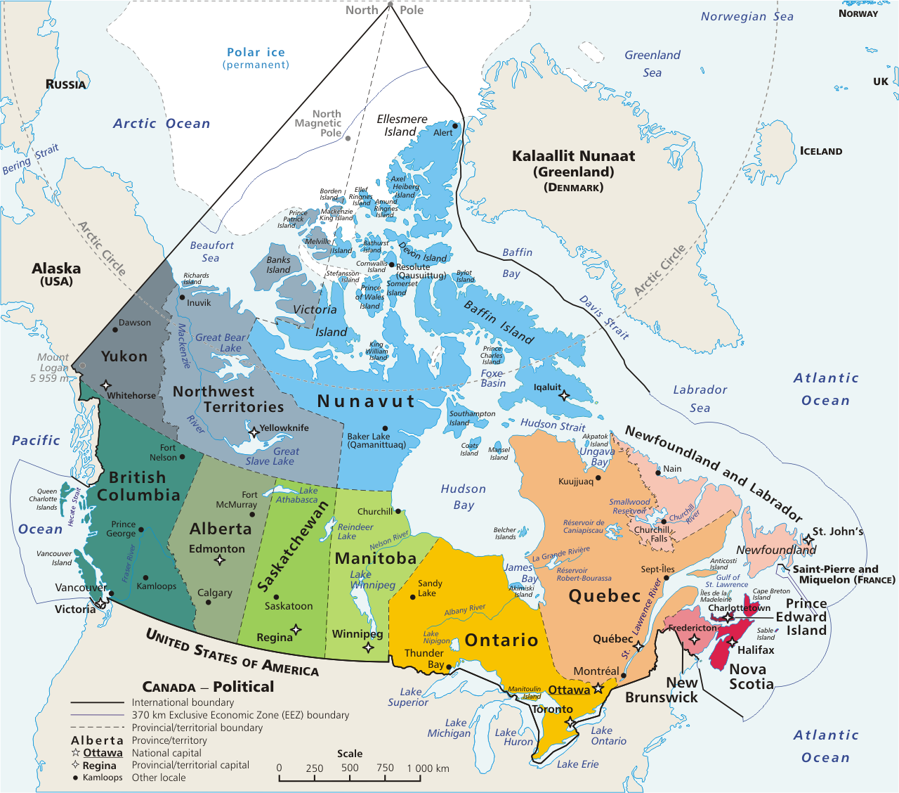 Geopolitical map of Canada